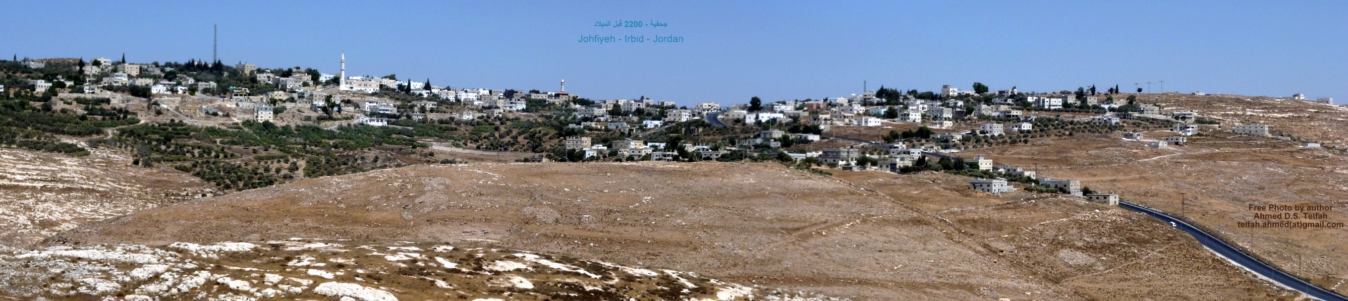 Panorama photo of Johfiyeh. taken from the west boarder of the village in Jordan.